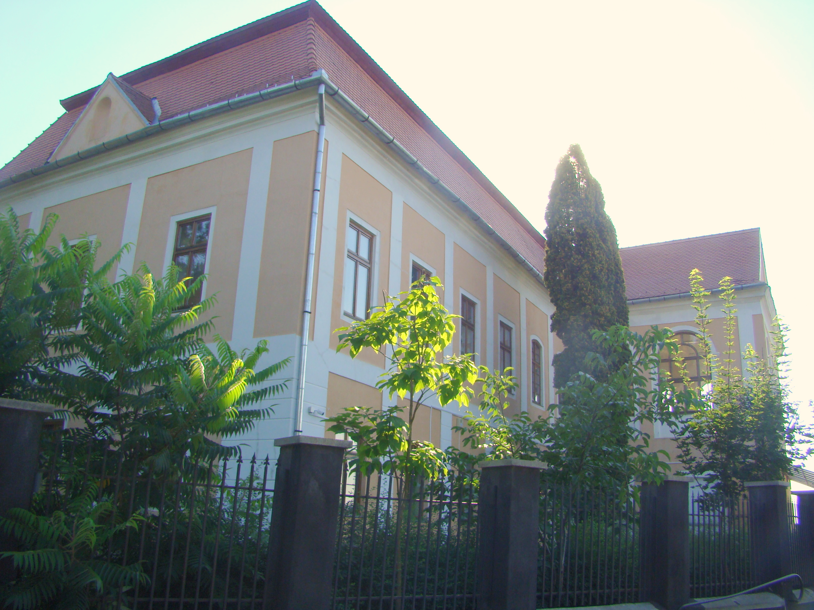 Rákóczi Castle in Șieu, Bistrița-Năsăud county, Romania